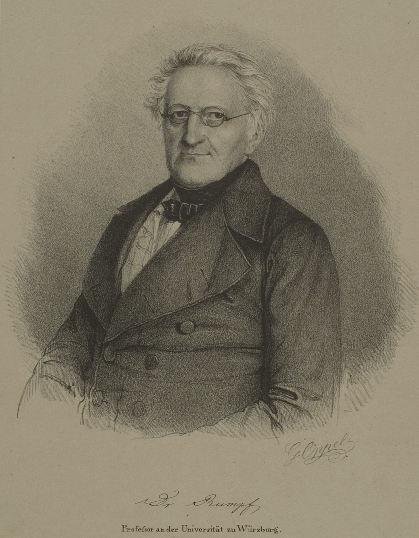 Ludwig Rumpf, German scientist (geologist) who died in 1862.